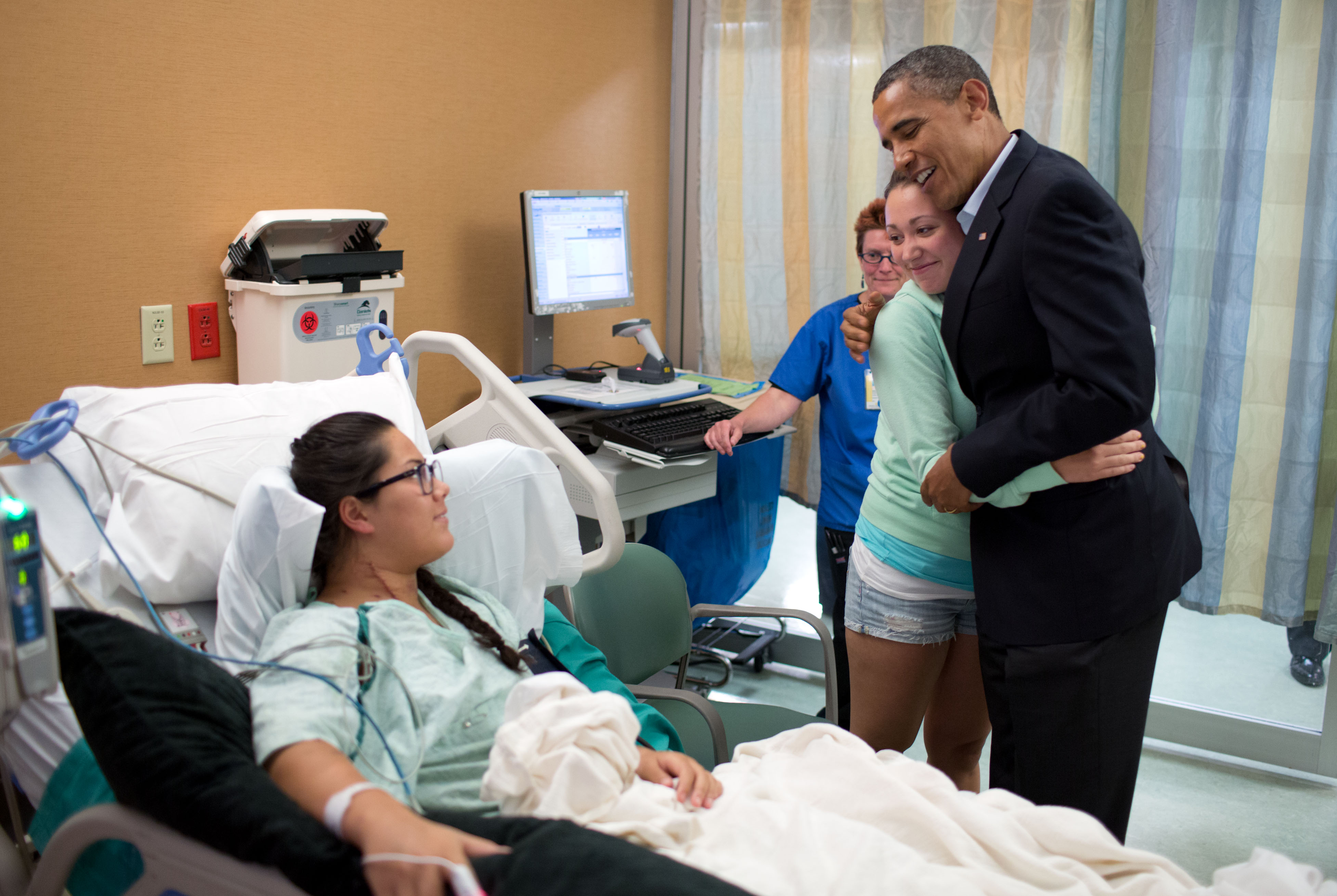 United States President Barack Obama hugs Stephanie Davies, who helped keep her friend, Allie Young, left, alive after she was shot during the 2012 Aurora shooting that occurred on 20 July 2012 in Aurora, Colorado. The President visited patients and family members affected by the shooting at the University of Colorado Hospital on 22 July 2012.